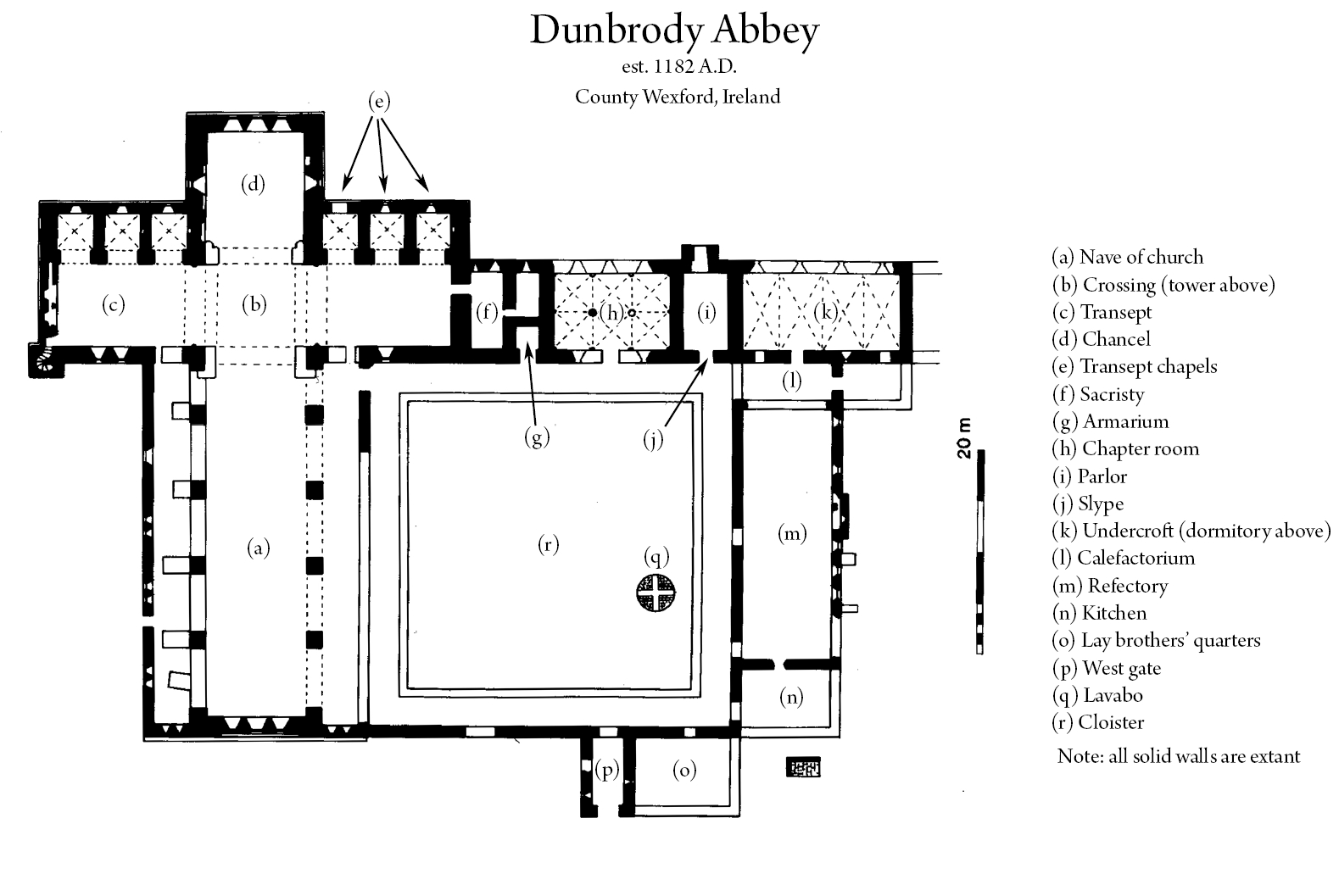 Plan of Dunbrody Abbey in Wexford, Ireland with descriptions